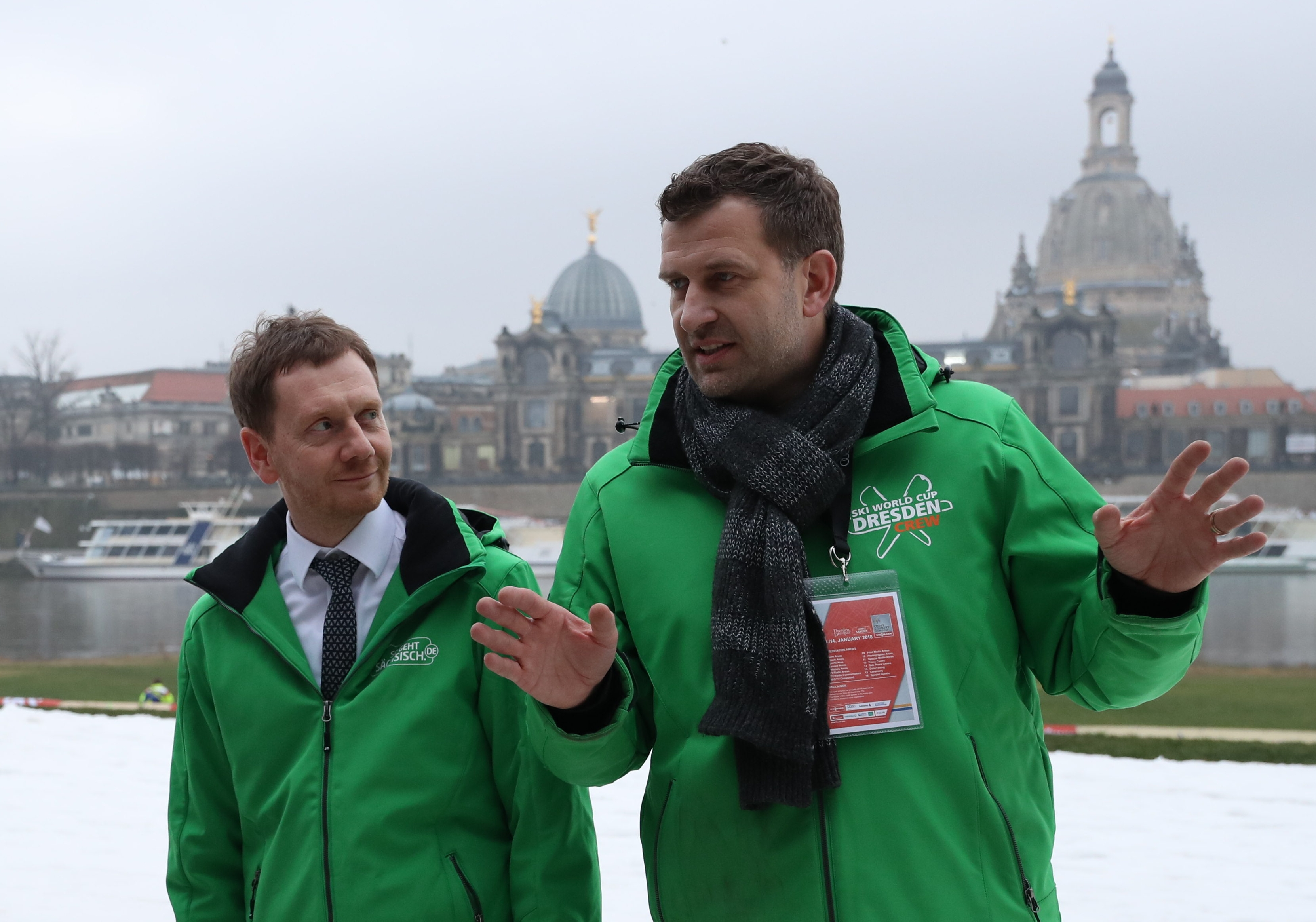 Press date with the Saxon State Premier Michael Kretschmer at the FIS Cross-Country World Cup Dresden 2018: Michael Kretschmer, René Kindermann